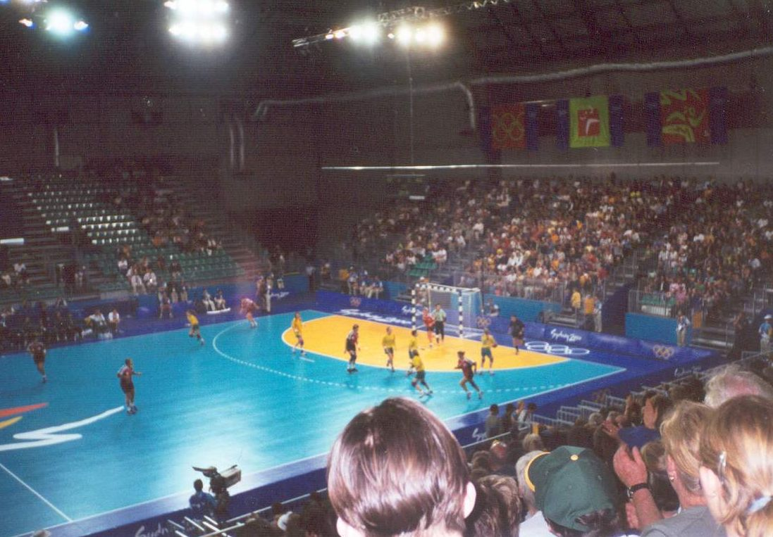 Game of Handball at the Sydney 2000 olympics. I took the photo.